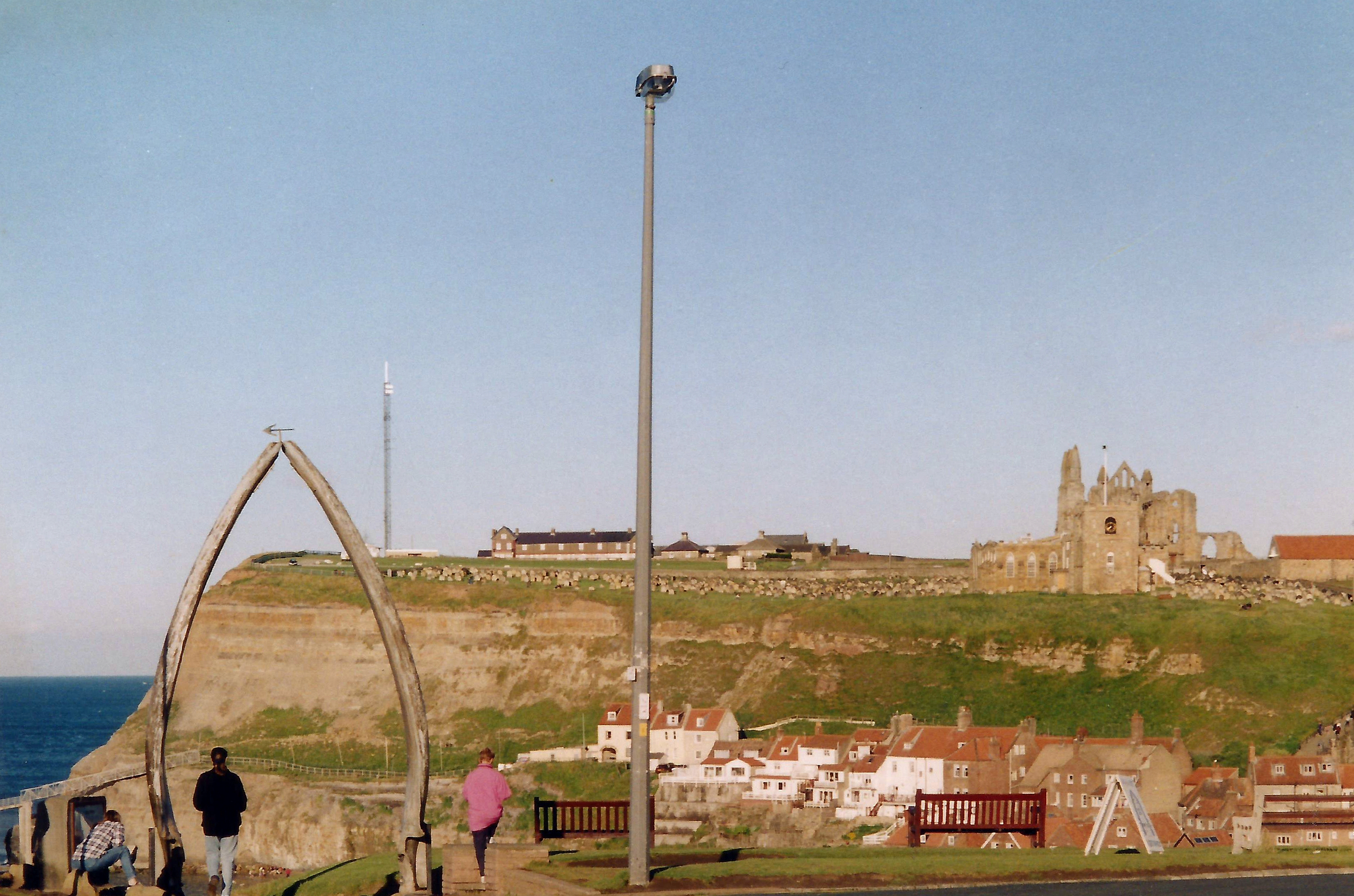 Whitby Abbey, Yorkshire, showing whalebone arch